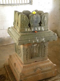 Great Saint who defeated scholars of non-dvaita